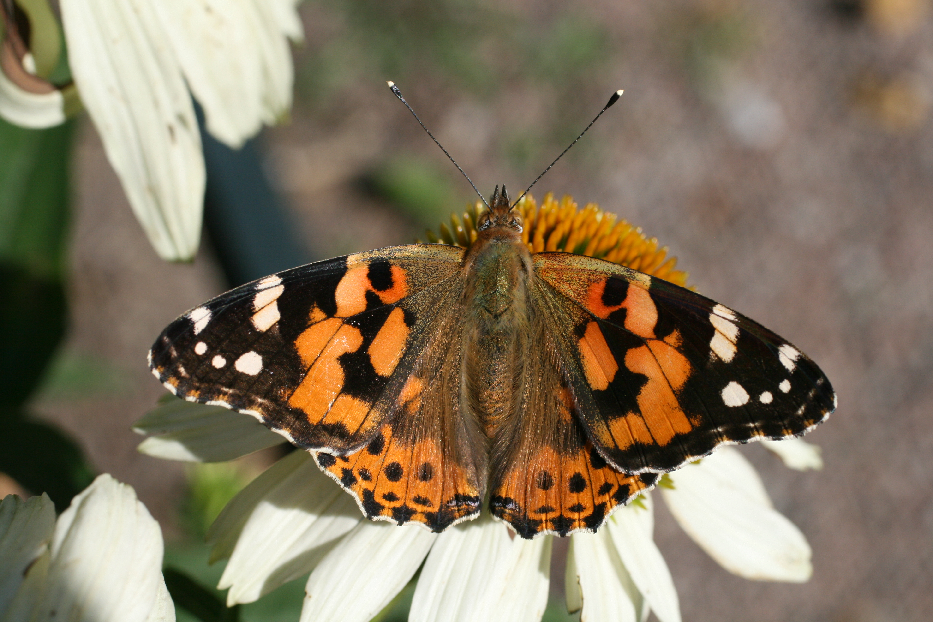 Cynthia cardui seen in Folkets Park in Malmö, Sweden.